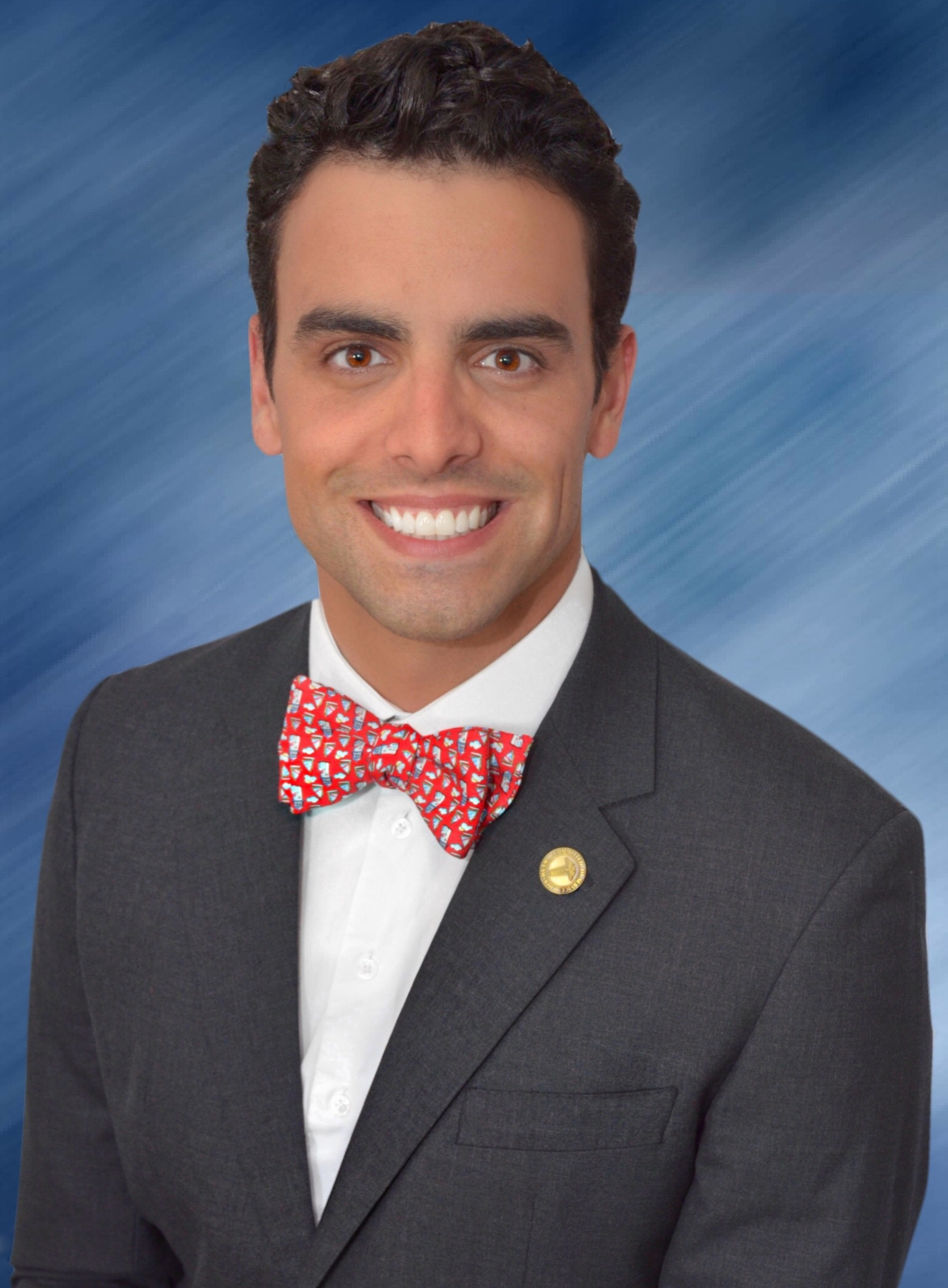 Radiation Oncologist Lung and IGRT